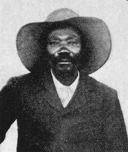 Jacob Morenga, leader of African partisans in the insurrection against German colonial rule